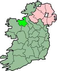 map of County Sligo, Ireland 08:09, 5 February 2004 Morwen 200x249 (30634 bytes) (map)